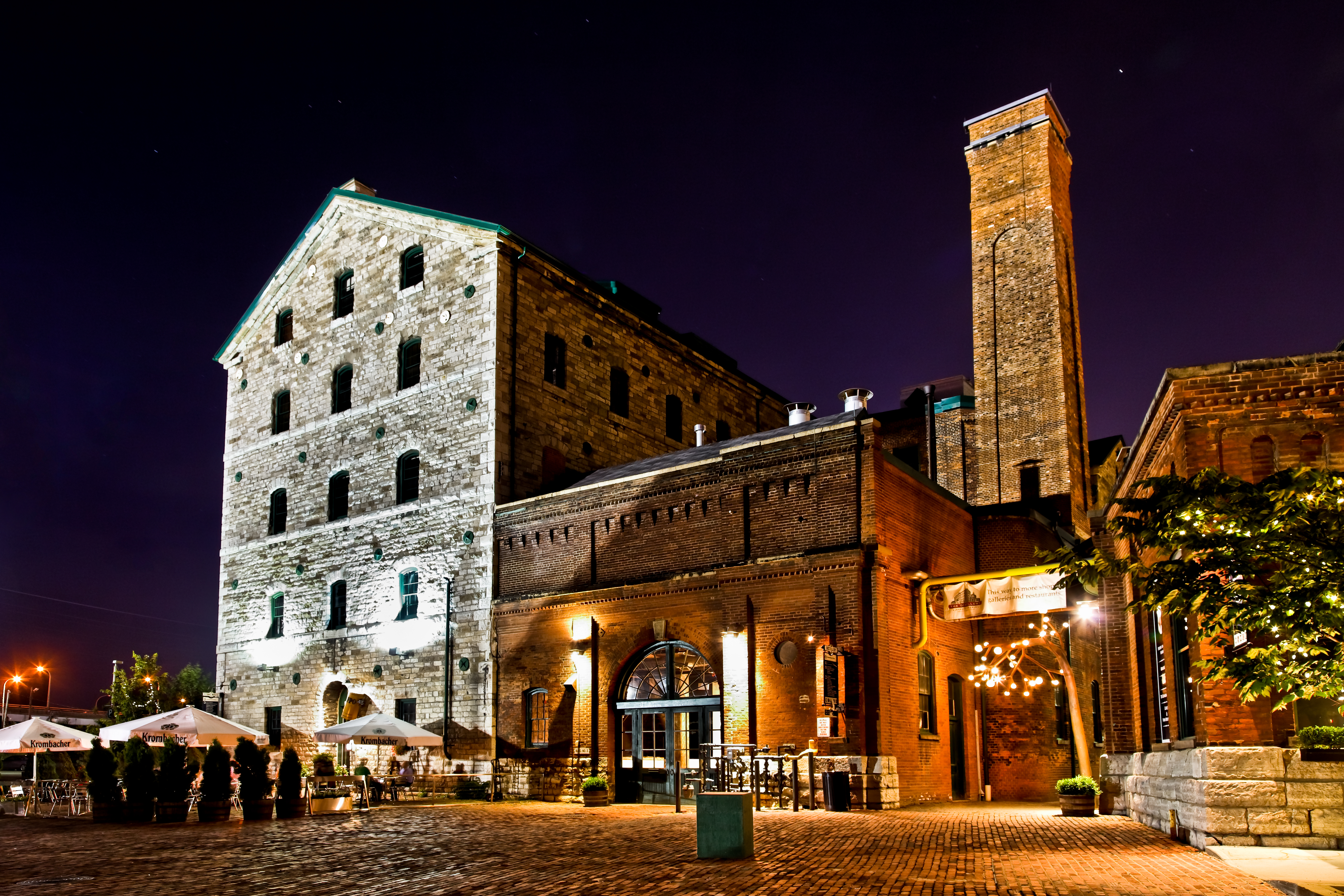 The Stonehouse Distillery at Toronto's Distillery District. Toronto, Ontario, Canada.